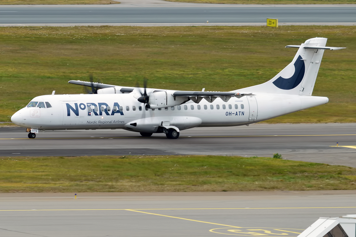 Nordic Regional Airlines, OH-ATN, ATR 72-500